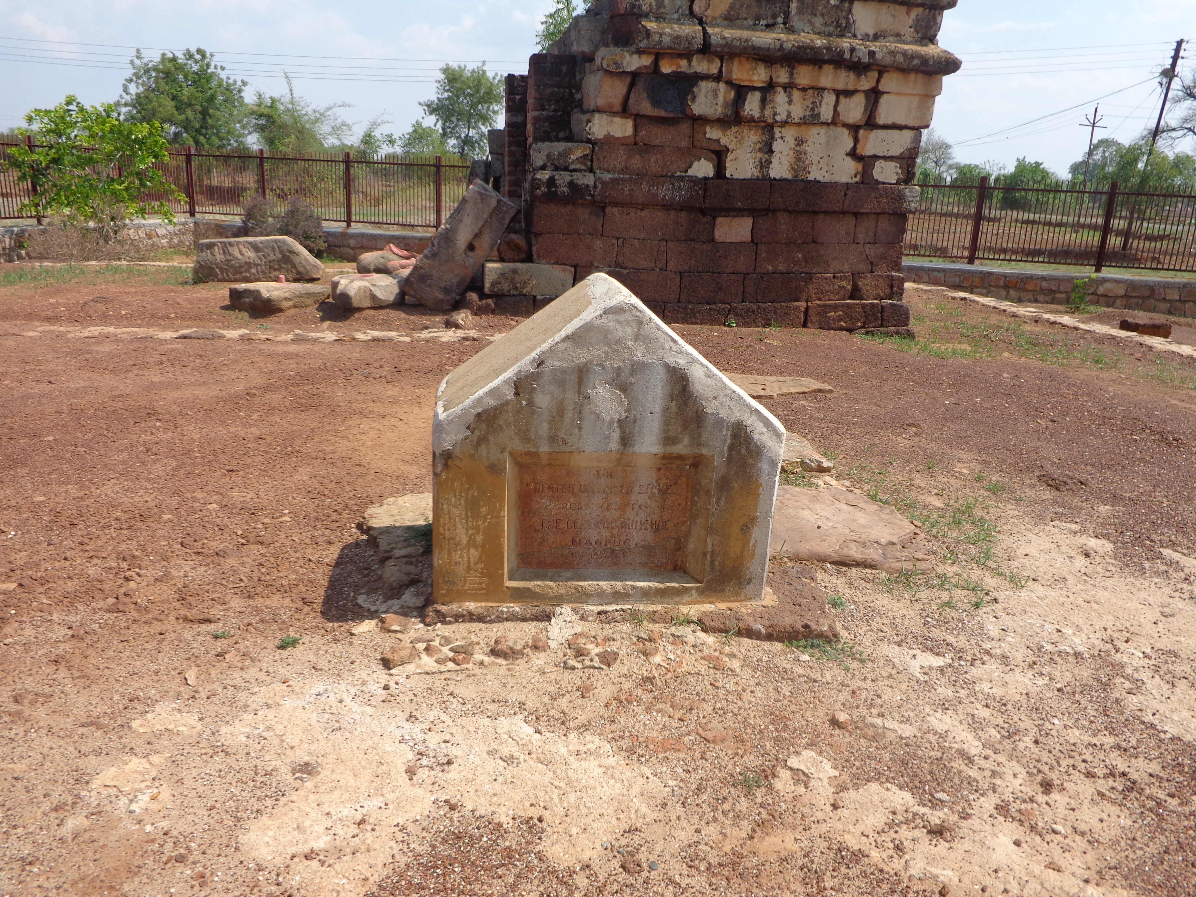 Devtek - A place in Nabhir district famous for Samrat Ashoka’s inscriptions. It is said that Samrat Ashoka’s officer, named “Dharma Mahamatra”, lived there. A Buddhist Monastery built at that period is still there. There is an ancient Ganesh Temple situated.